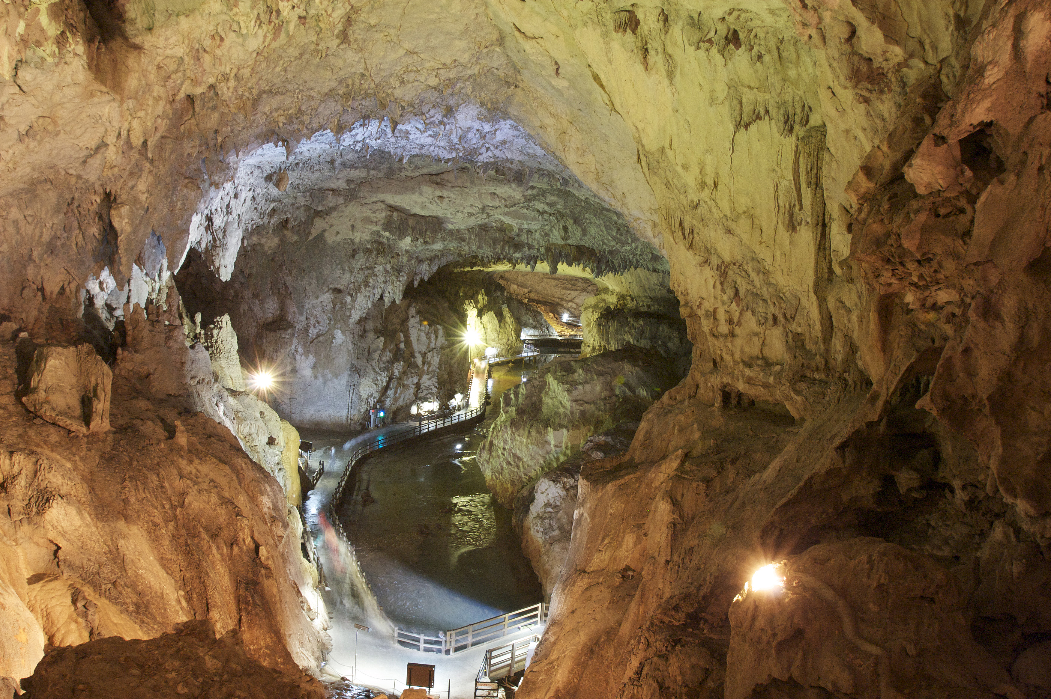 The Akiyoshido cave is the largest limestone cave in East Asia. Those looking for a little adventure had the opportunity to explore hidden passageways off the beaten course during a trip to the caves with the Single Marine Program her April 19.